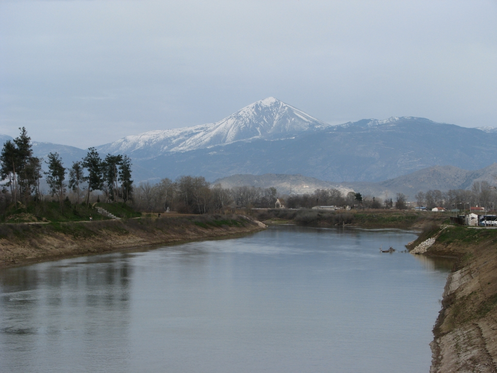 Ossa mountain (Kissavos) viewed from Pineios bridge in Larissa city